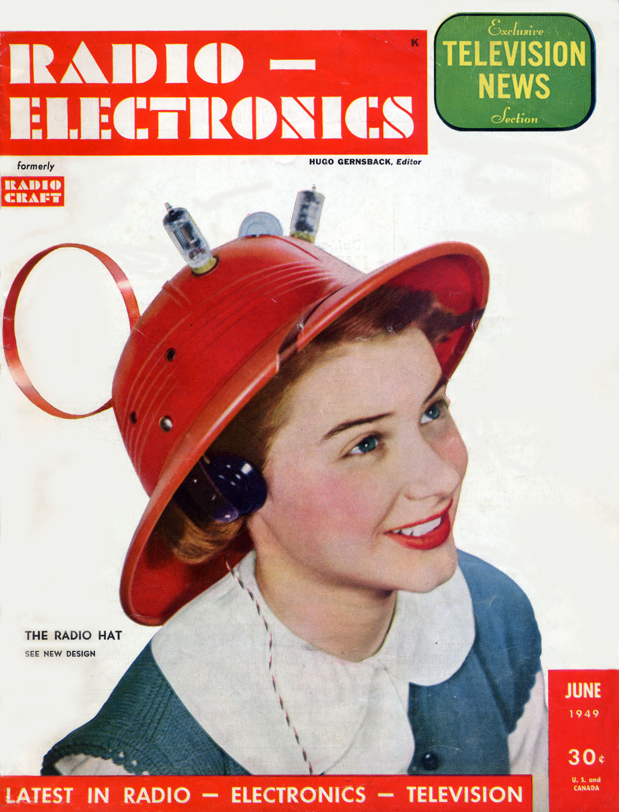 Radio-Electronics, June 1949, Volume 20, Number 9 Gernsback Publications, Inc. Publisher and Editor-in-Chief: Hugo Gernsback. Cover: The Radio Hat, posed by Hope Lange (see page 4). The two tube radio receiver cost $7.95 and was manufactured by the American Merri-Lei Corporation of Brooklyn, N.Y. It came in 8 colors; Lipstick Red, Tangerine, Flamingo, Canary Yellow, Chartreuse, Blush Pink, Rose Pink, and Tan. (Kind of a 1949 iPod.) The radio was powered by an external battery pack.